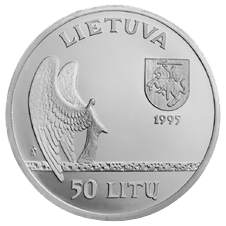 50 litas coin issued to commemorate the 120th birth Anniversary of Mikalojus Konstantinas Cirlionis Silver Ag 925 Quality proof Diameter 34.00 mm Weight 23.30 g The words on the edge of the coin: PASAULIS KAIP DIDELE SIMFONIJA* (THE WORLD AS A GREAT SYMPHONY) The designer of the coin is Antanas Zukauskas Mintage 10,000 pcs Issued 1995 Distribution terminated 2000 Distributed amount 6,514 pcs The coin was minted at the state enterprise Lithuanian Mint.